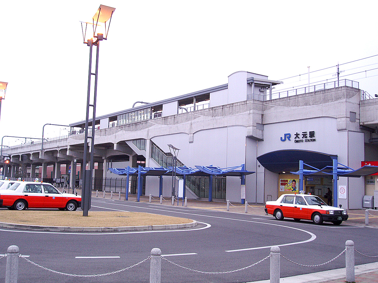 West Japan Railway Uno Line（Seto-Ohashi Line） Omoto Station Building East Gate 西日本旅客鉄道 宇野線（瀬戸大橋線） 大元駅駅建物 東出口